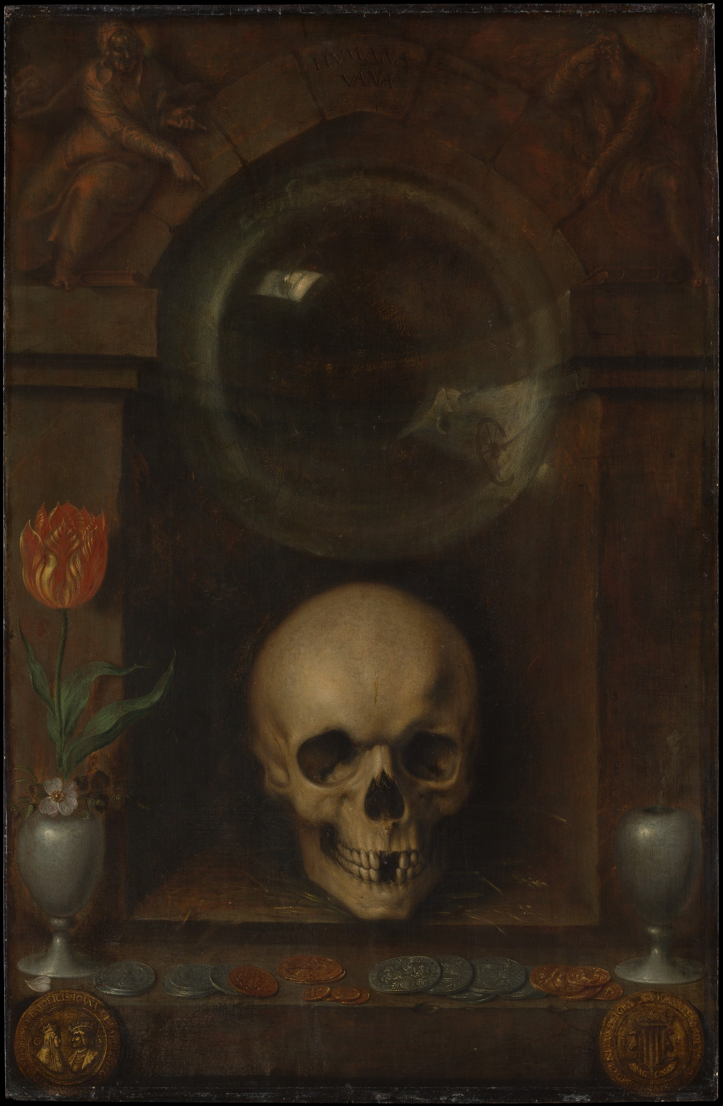 Vanitas Still Life